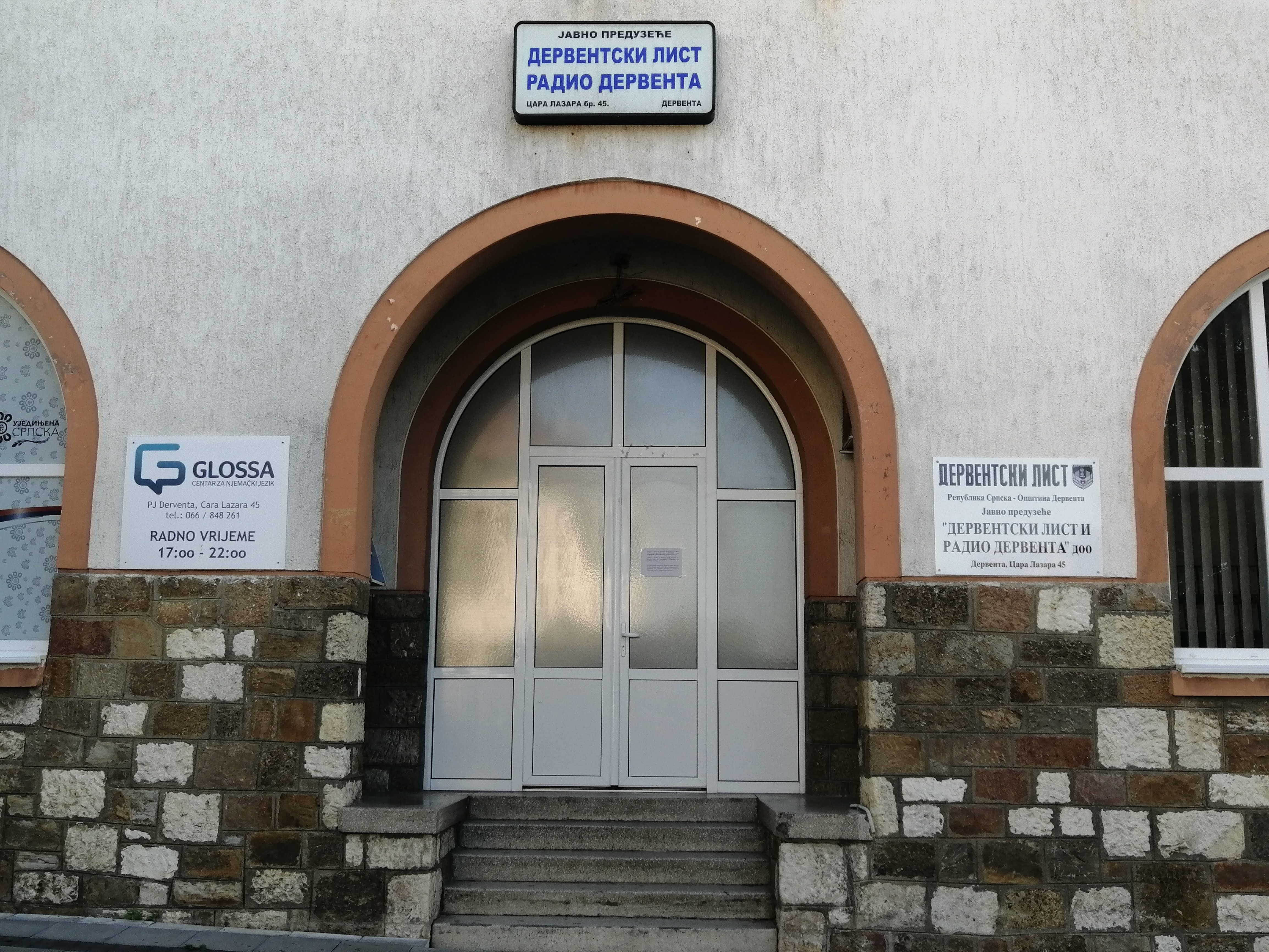 Derventski list office in Derventa.